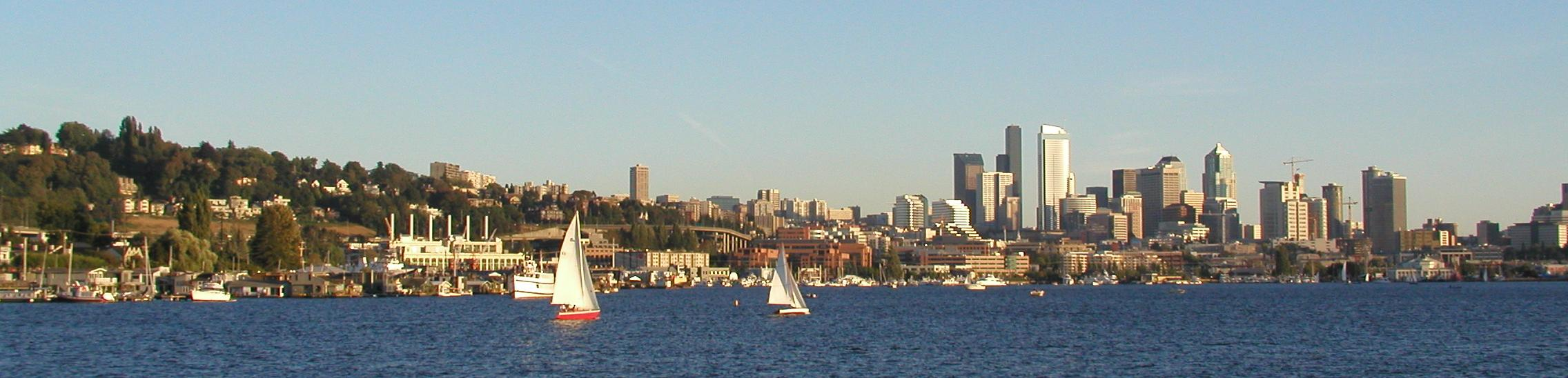 The view of downtown Seattle from Lake Union